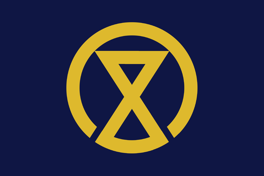 Flag of Miyazaki, Miyazaki